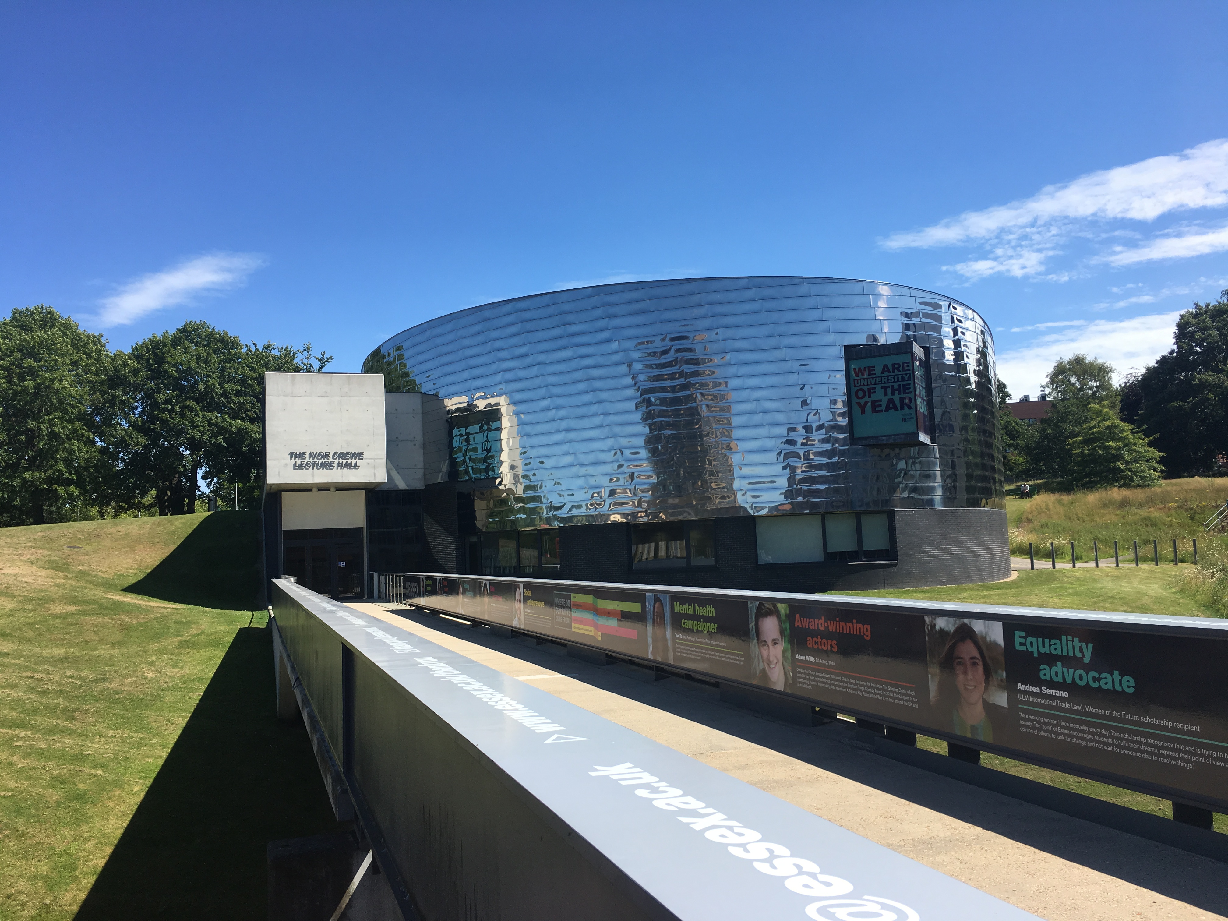 Ivor Crewe Lecture Hall, Colchester Campus, University of Essex